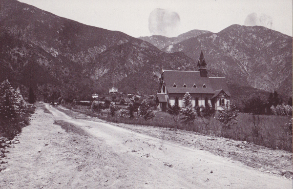 1887 Original Episcopal Church of the Ascension Sierra Madre, California, destroyed by wind storm. Other information From Sierra Madre Historical Society